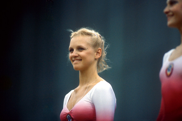 Photograph of Galina Beloglazova of former Soviet Union celebrating gold medal in rhythmic gymnastics at 1986 Goodwill Games Moscow. Photo by Tom Theobald and released into the public domain. Template:Galina Beloglazova, Soviet gymnast, Ukrainian rhythmic gymnast, 1986 Goodwill Games